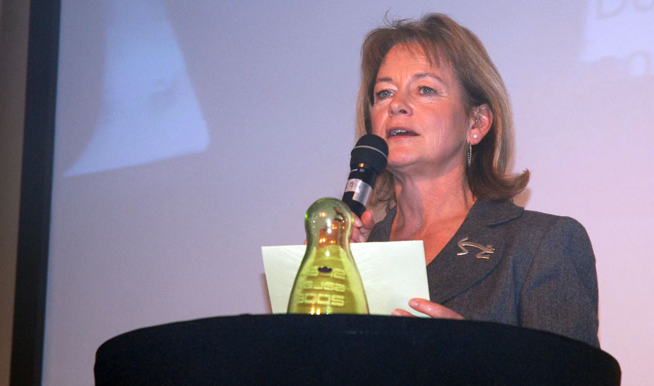 Lena Adelsohn Liljeroth, The Swedish Minister of Culture giving out the award for best Swedish game at the Video game gala 2008 in Sweden.